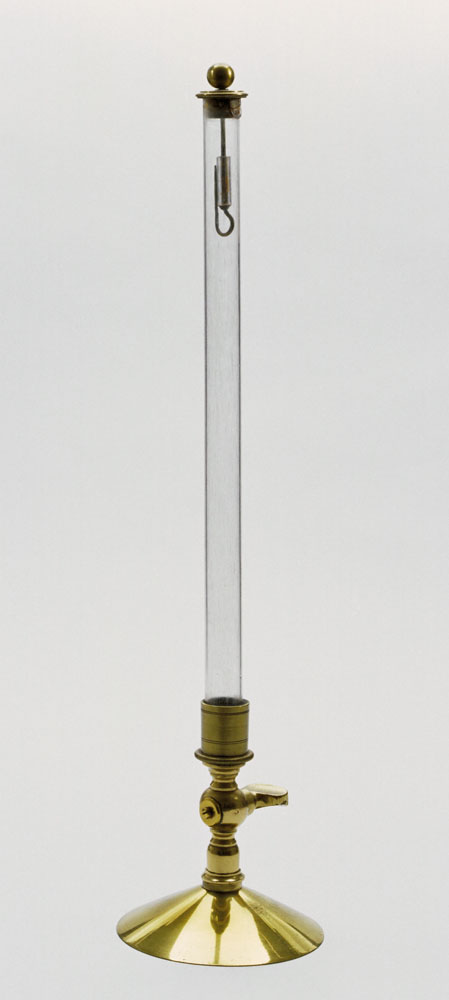 ArtistUnknownAuthorAlessandro VoltaDescription